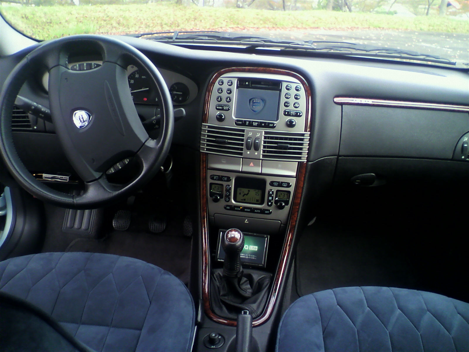 Lancia Lybra